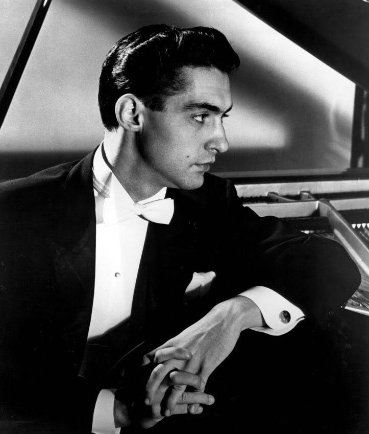 Photo of pianist John Browning.